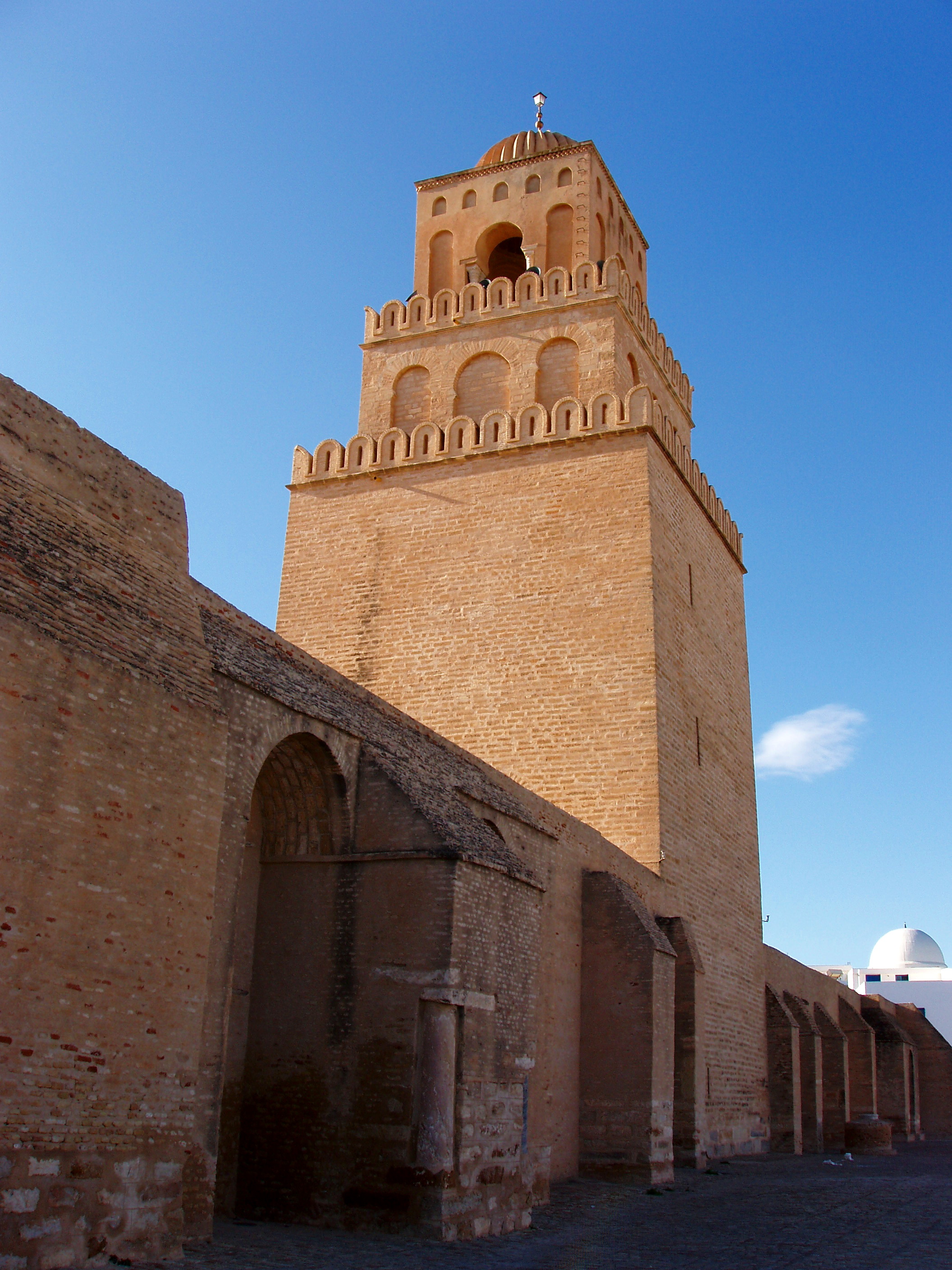 North side of the Great Mosque of Kairouan minaret